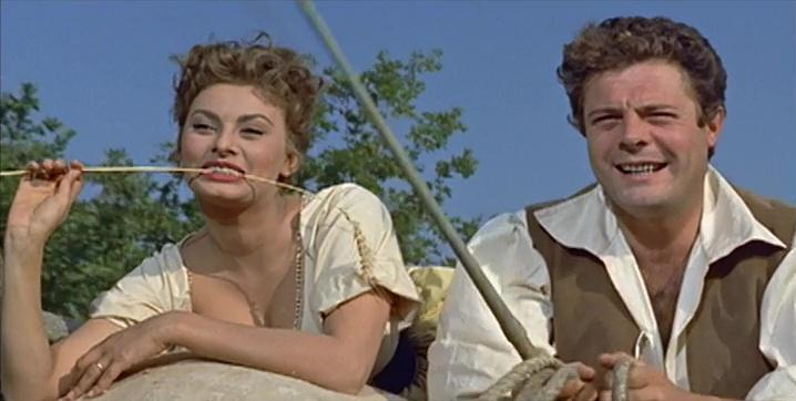 Sophia Loren and Marcello Mastroianni in a scene of the Italian film La bella mugnaia by Mario Camerini